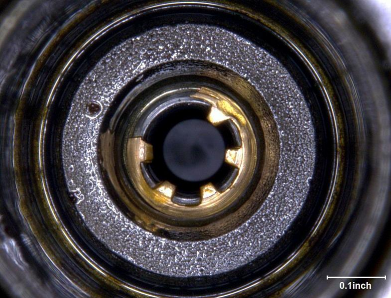 Fractured bronze ring inside of a failed solenoid valve from the Andrew J. Barberi.